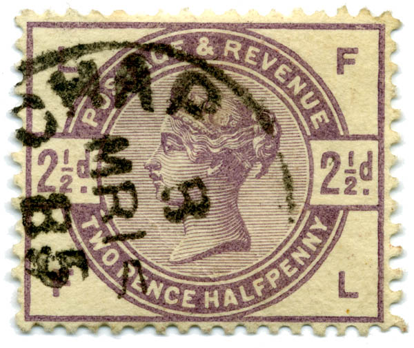 Scan of United Kingdom 2 1/2-pence stamp of 1884